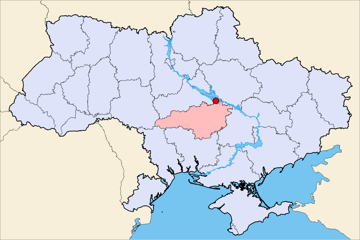 Description = Nowoheorhiewsk geographical position Source = own work, Skluesener Date = 22.01.2006 Author = Skluesener Credits = Colours chosen according to a map of steschke